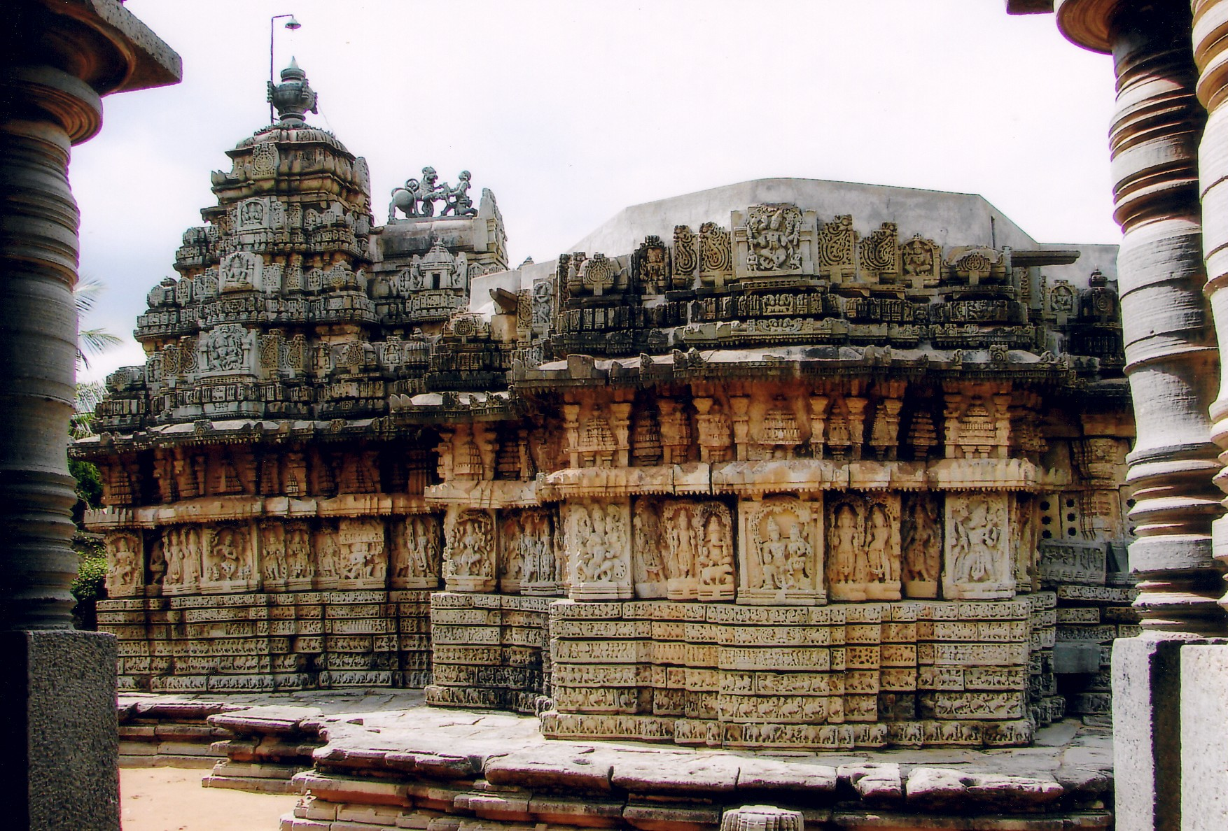 Located in the Mallikarjuna temple at Basaral (also Basaralu) in Mandya district, Karnataka state, India. The temple was constructed in 1234 AD during the rule of Hoysala Empire King Vira Narasimha II